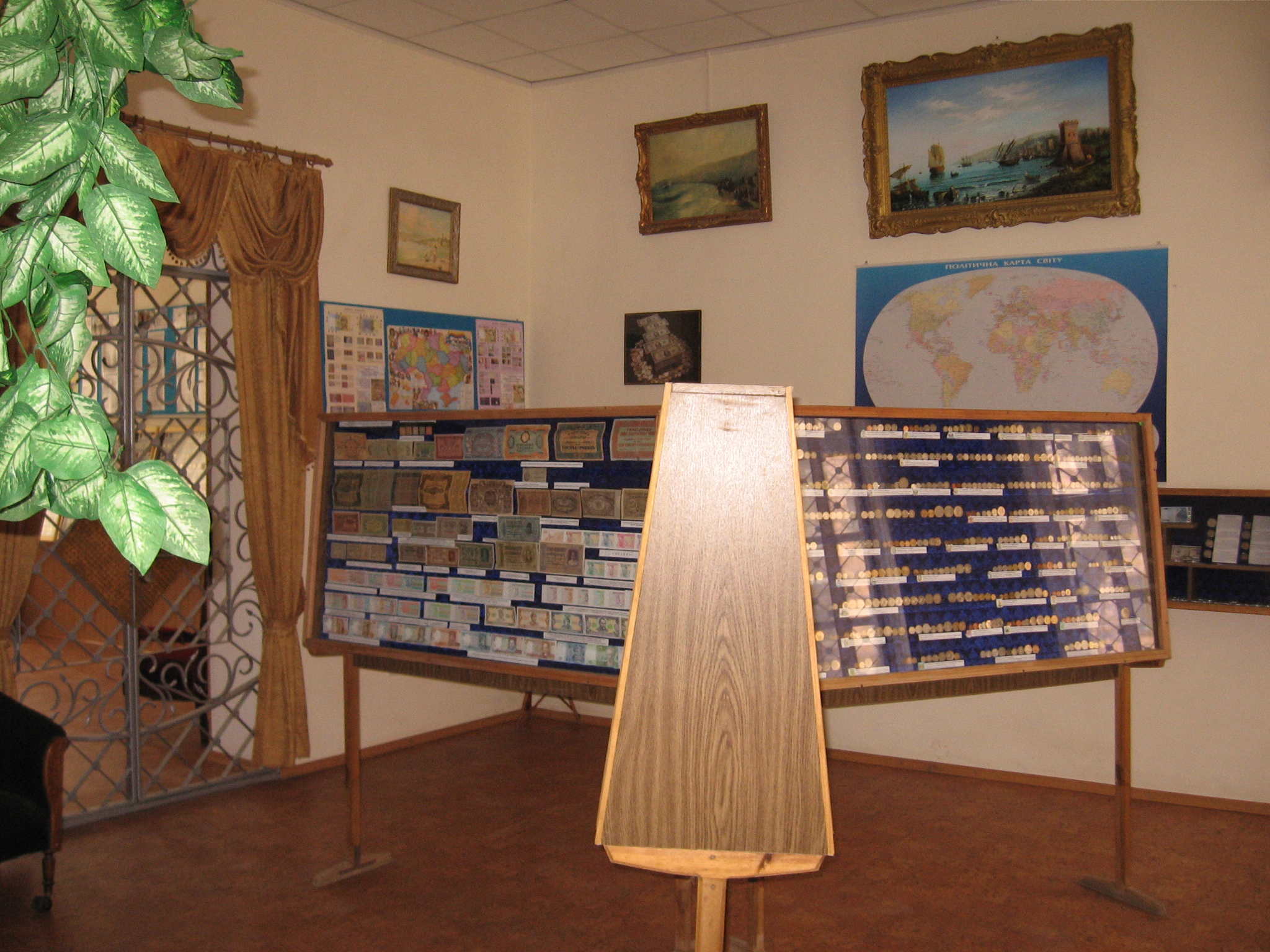 Feodosia. Museum of money. 1st exposition.